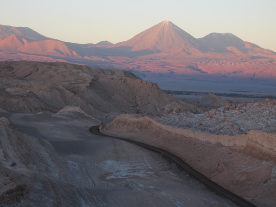 Valle de la Luna